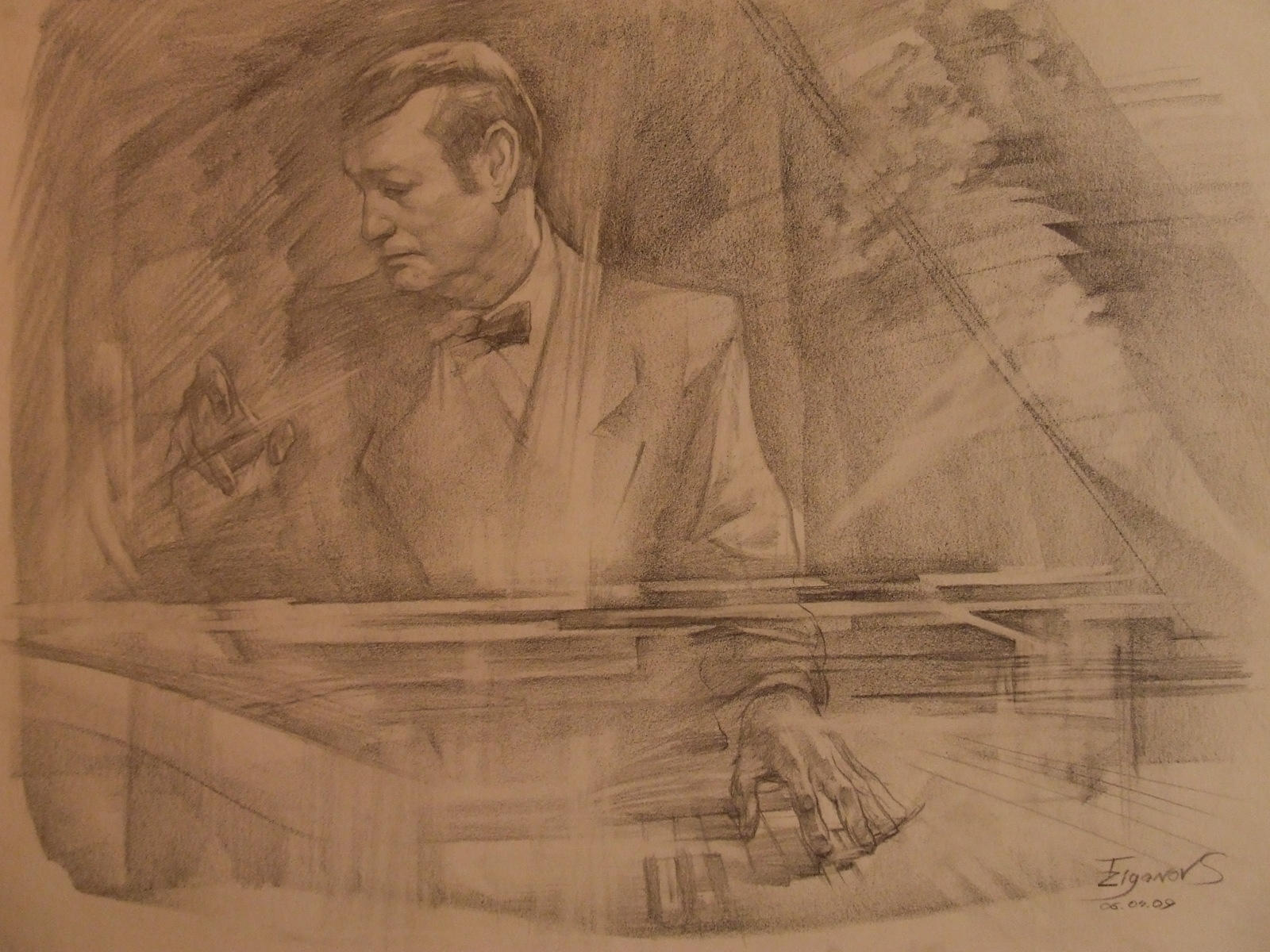 Cziffra